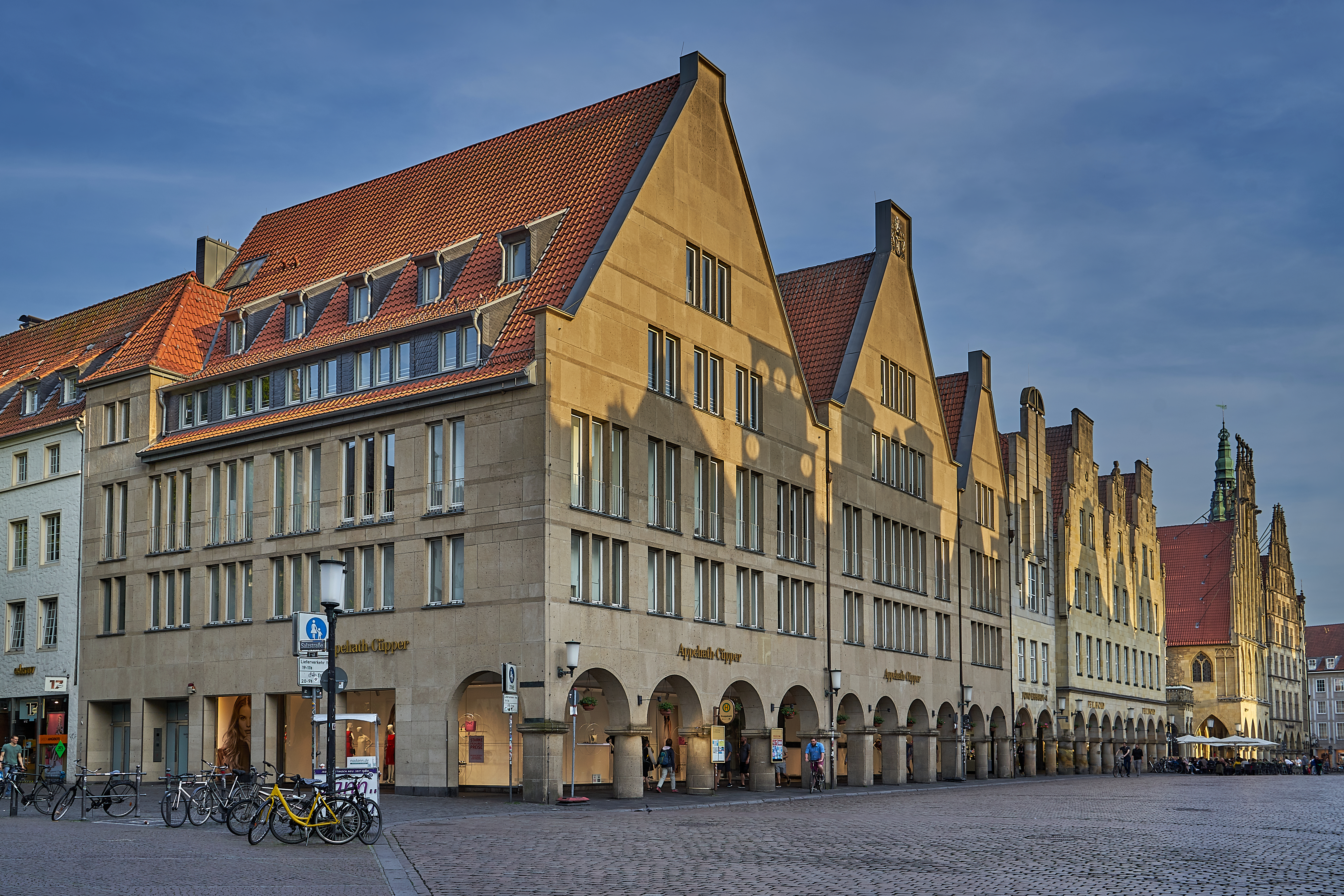 Prinzipalmarkt, Münster, North Rhine-Westphalia, Germany. This is a photograph of an architectural monument.It is on the list of cultural monuments of Münster